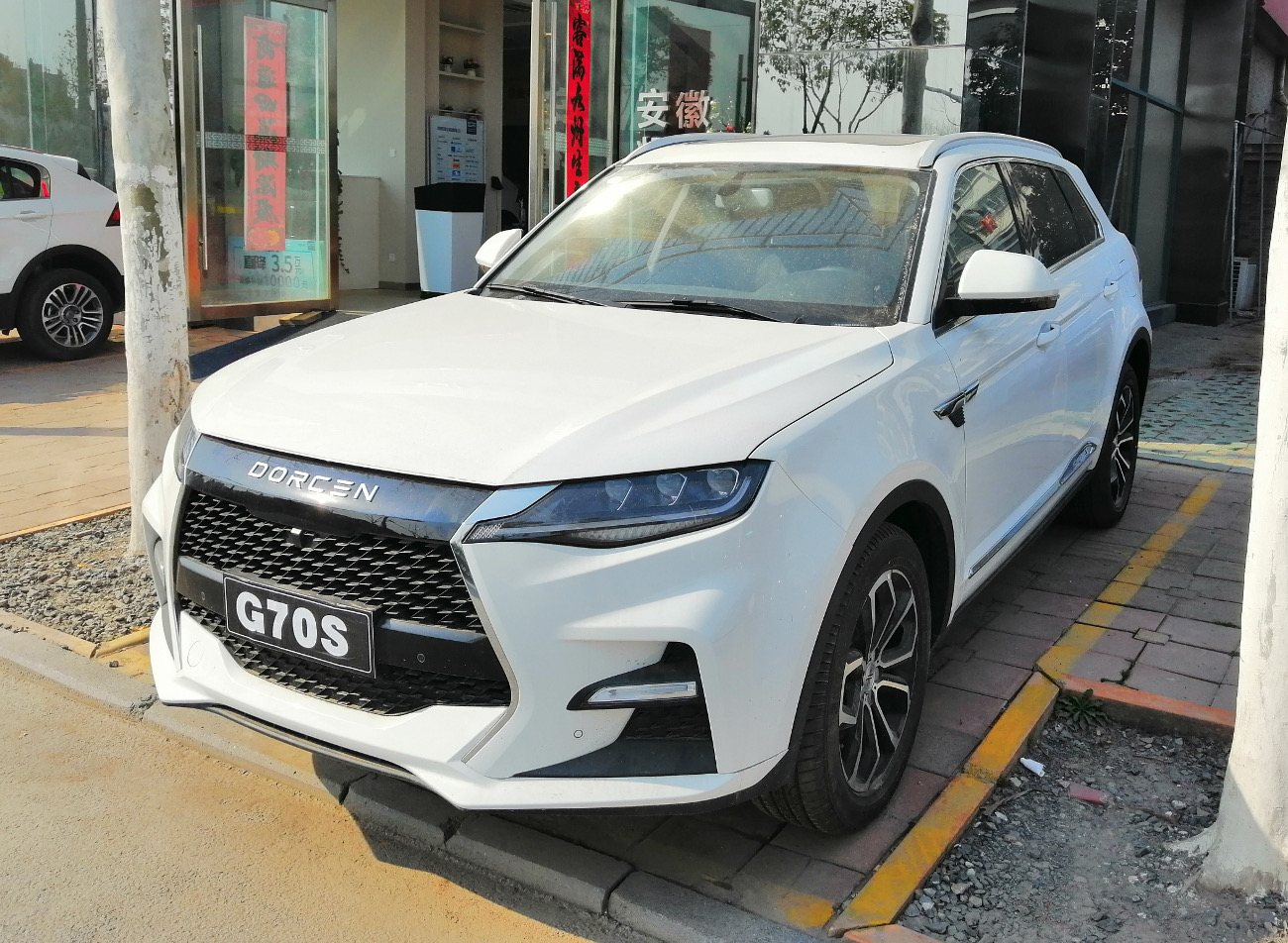 Dorcen G70S photographed in Hefei, Anhui province, China.